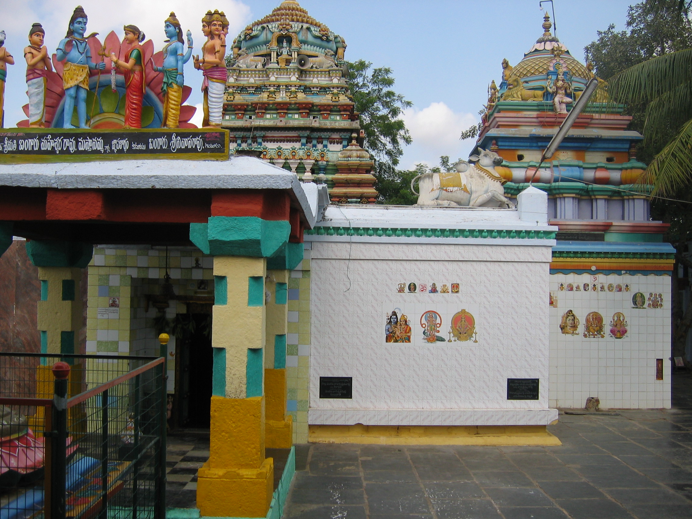 One of the oldest temples in Guntur City, named under its previous name Garthapuri.